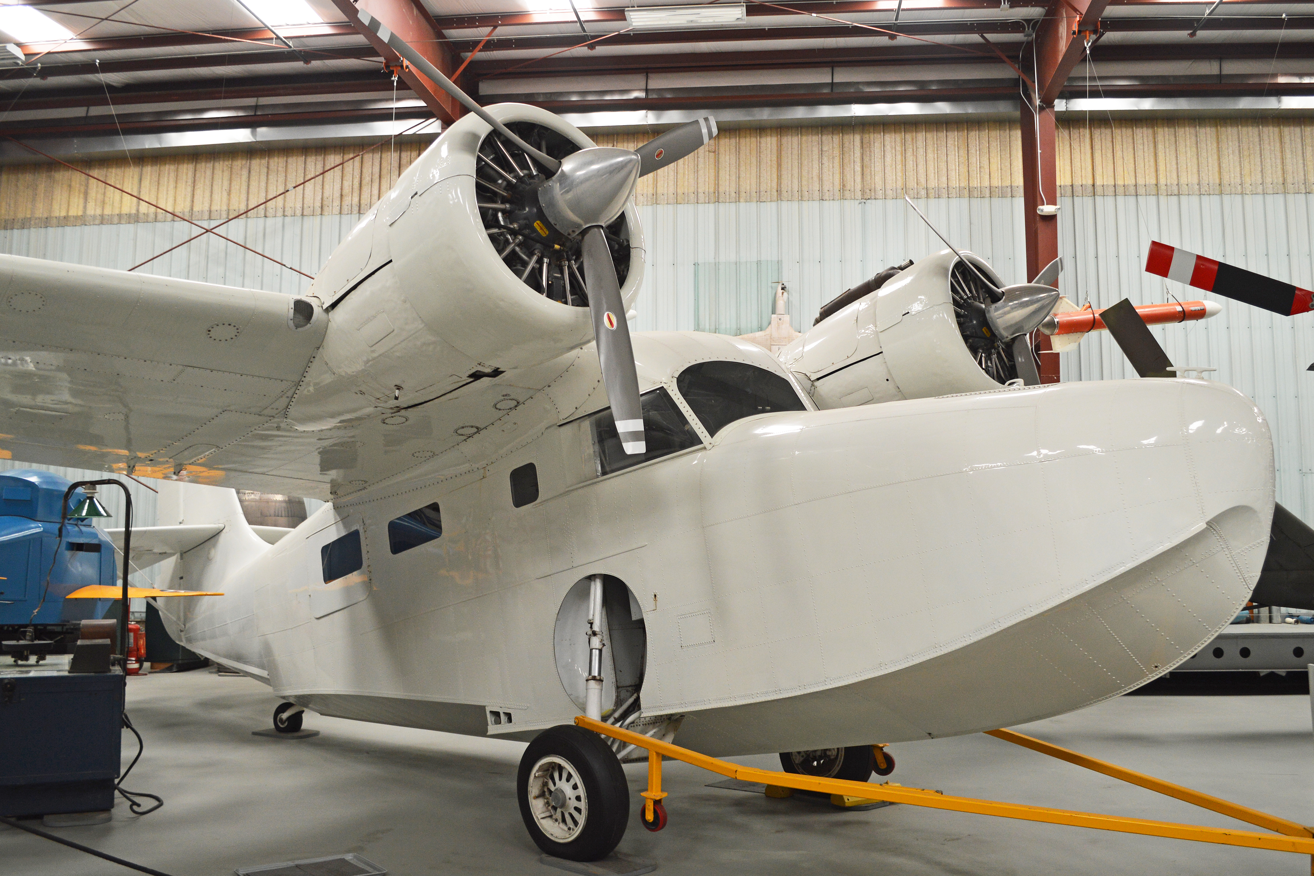 c/n B-140. Built 1945 as a JRF-5 for the U.S.Navy with the Bureau Number 87746. Saw little military service before sold off for commercial use. Crashed on take-off, Togiak River, AK, in August 1993. Rebuild to airworthy condition and now on display in Hangar 3 at the Yanks Air Museum, Chino, California, USA. 28-2-2016.